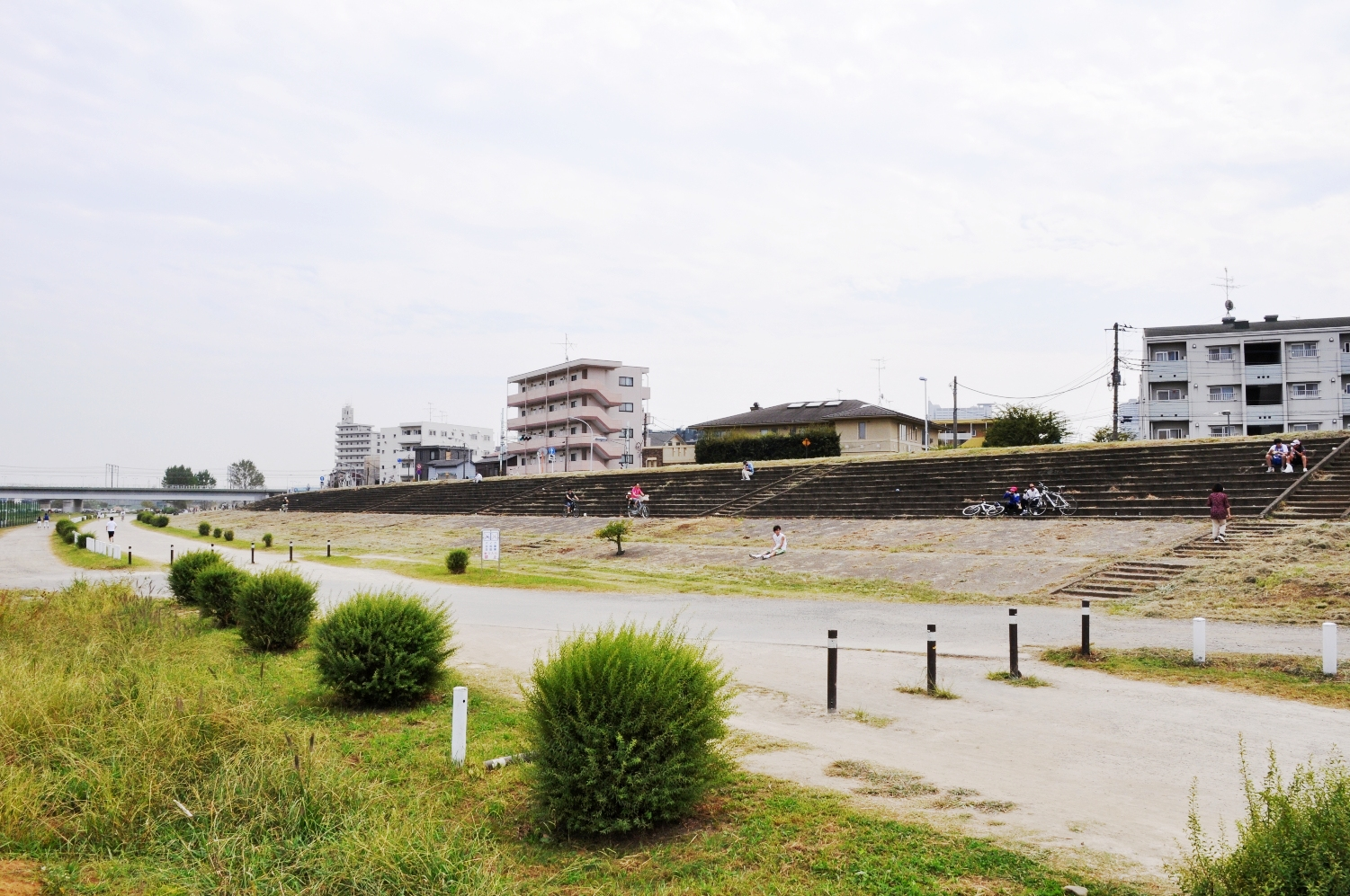 Tamagawa speedway site